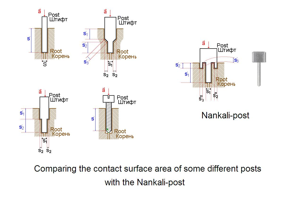 Nankali-post System-p2